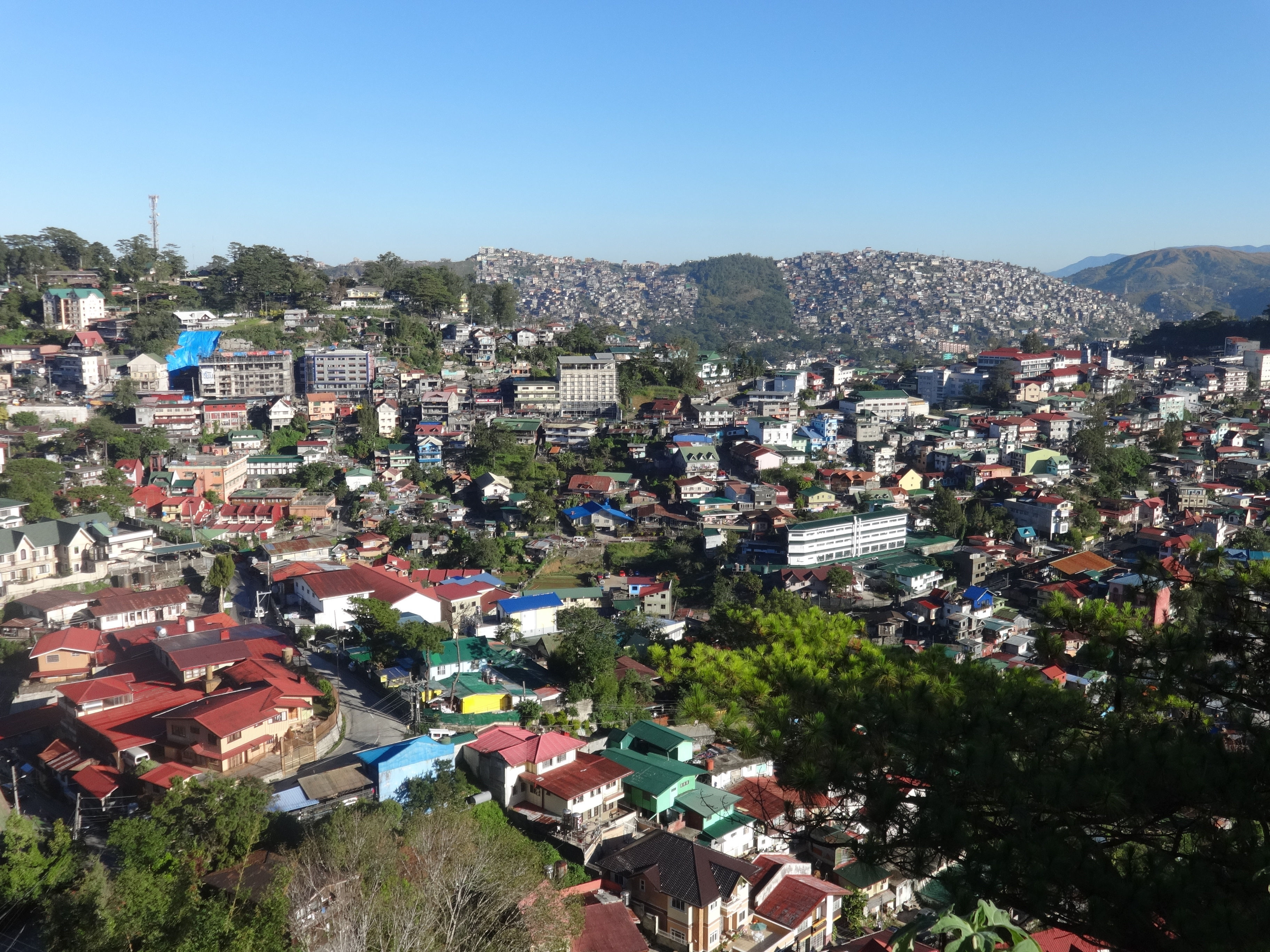 View of Baguio City skyline from Dominican Hill